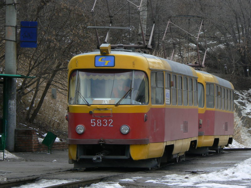 Tatra-3 tramcar on "Chekists' Square" station, Volgograd metrotram